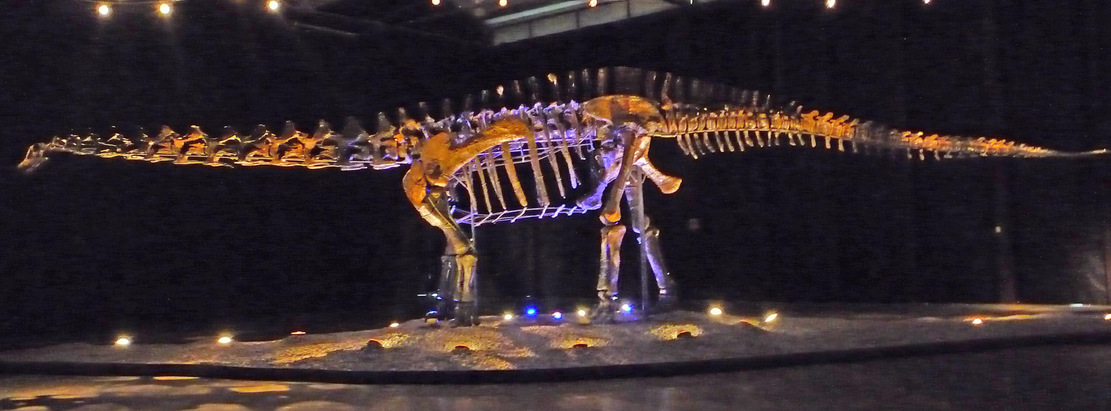 The most complete Apatosaurus specimen known to date (BYU 17096), nicknamed "Einstein" (invalidly known as "Amphicoelias brontodiplodocus"). This specimen is currently Apatosaurus sp.